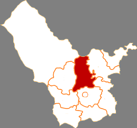 Locator map of Chahar Right Back Banner in Ulanqab City, Inner Mongolia, China